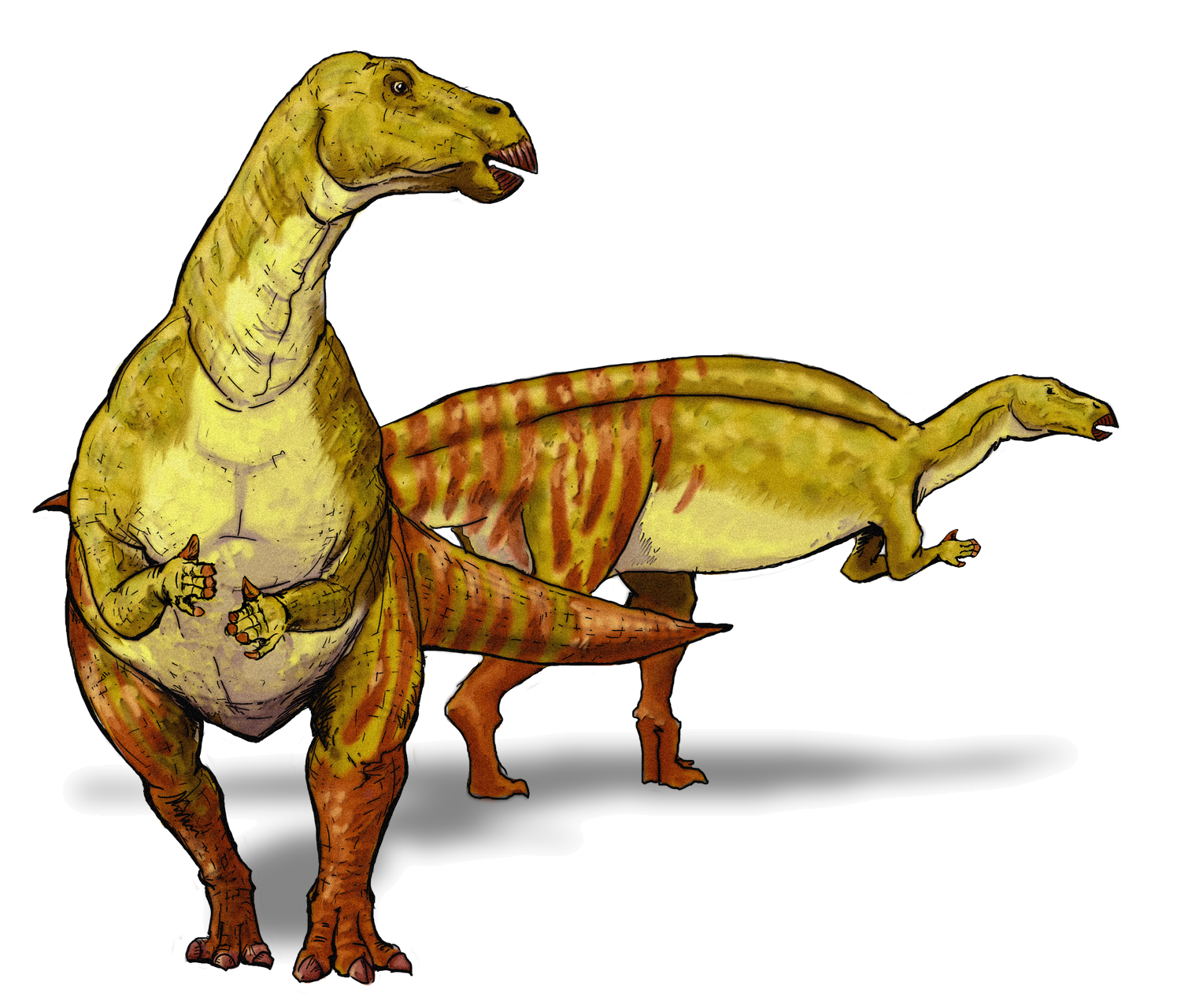 Nanyangosaurus is the name given to a genus of dinosaur from the Early Cretaceous. It was an iguanodont which lived in what is now China